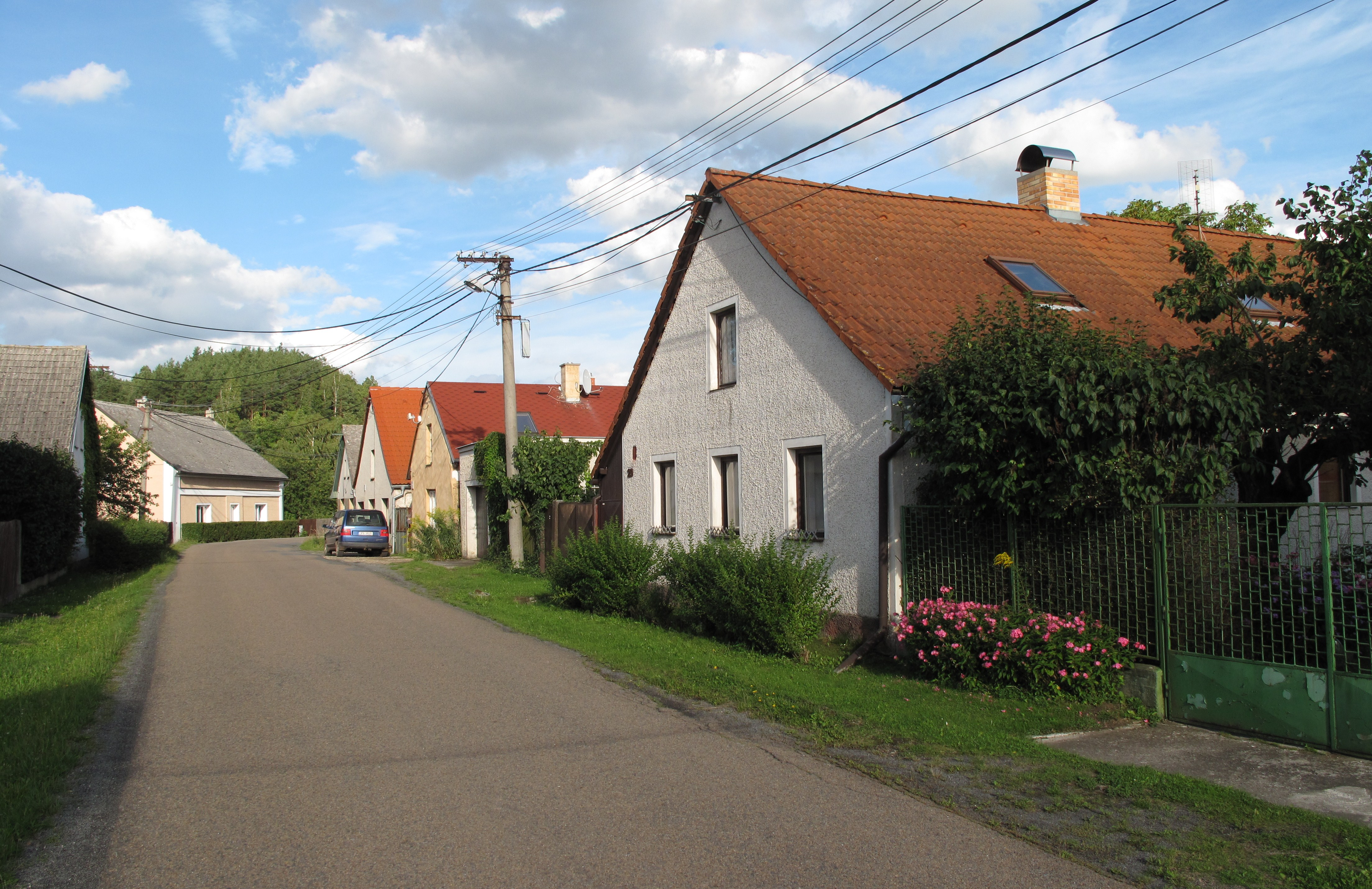 Road with houses in Medový Újezd village, Rokycany District, Czech Republic.